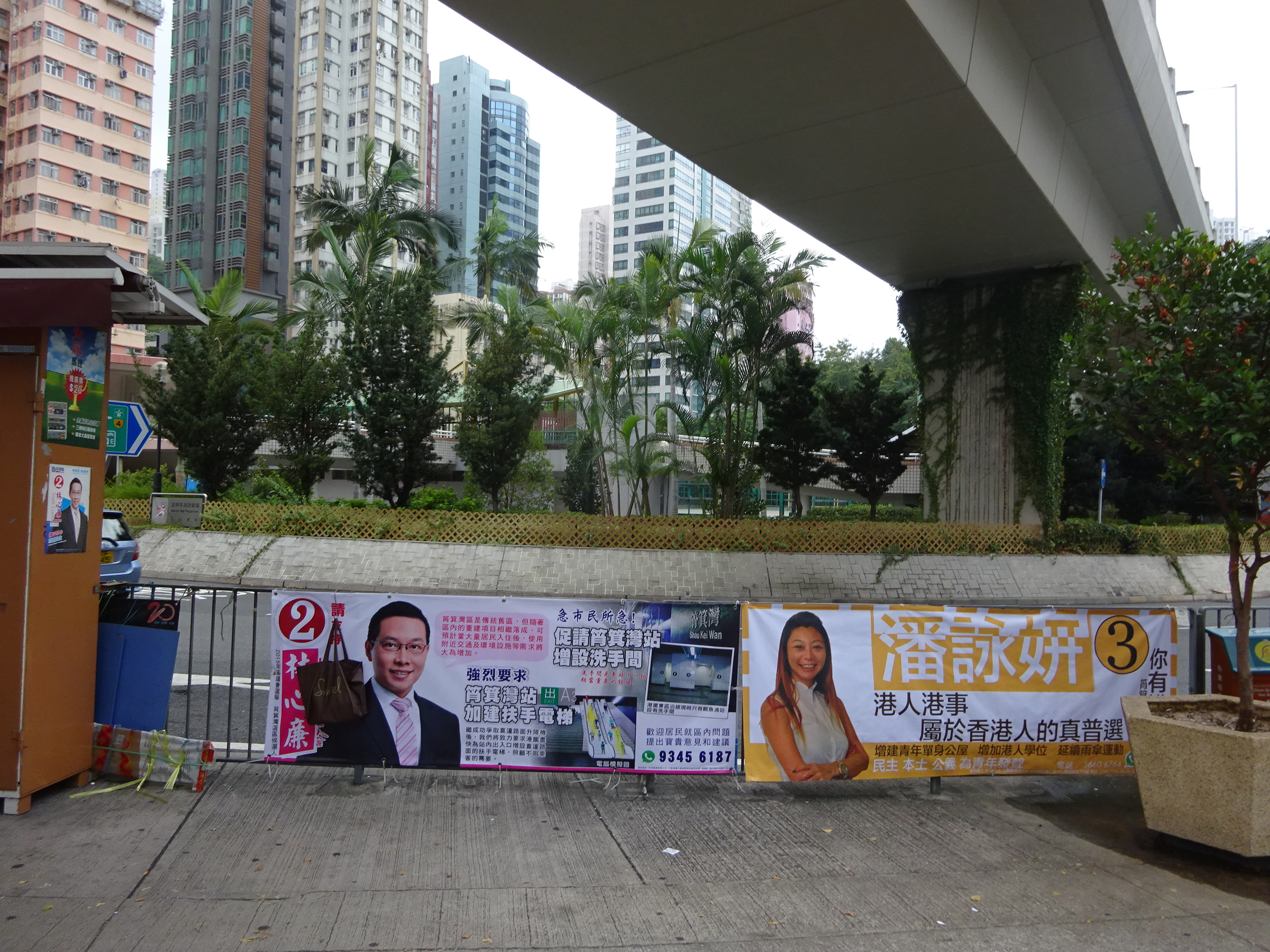 Island Eastern Corridor, Shau Kei Wan Bus Terminus, Po Man Street, Hong Kong